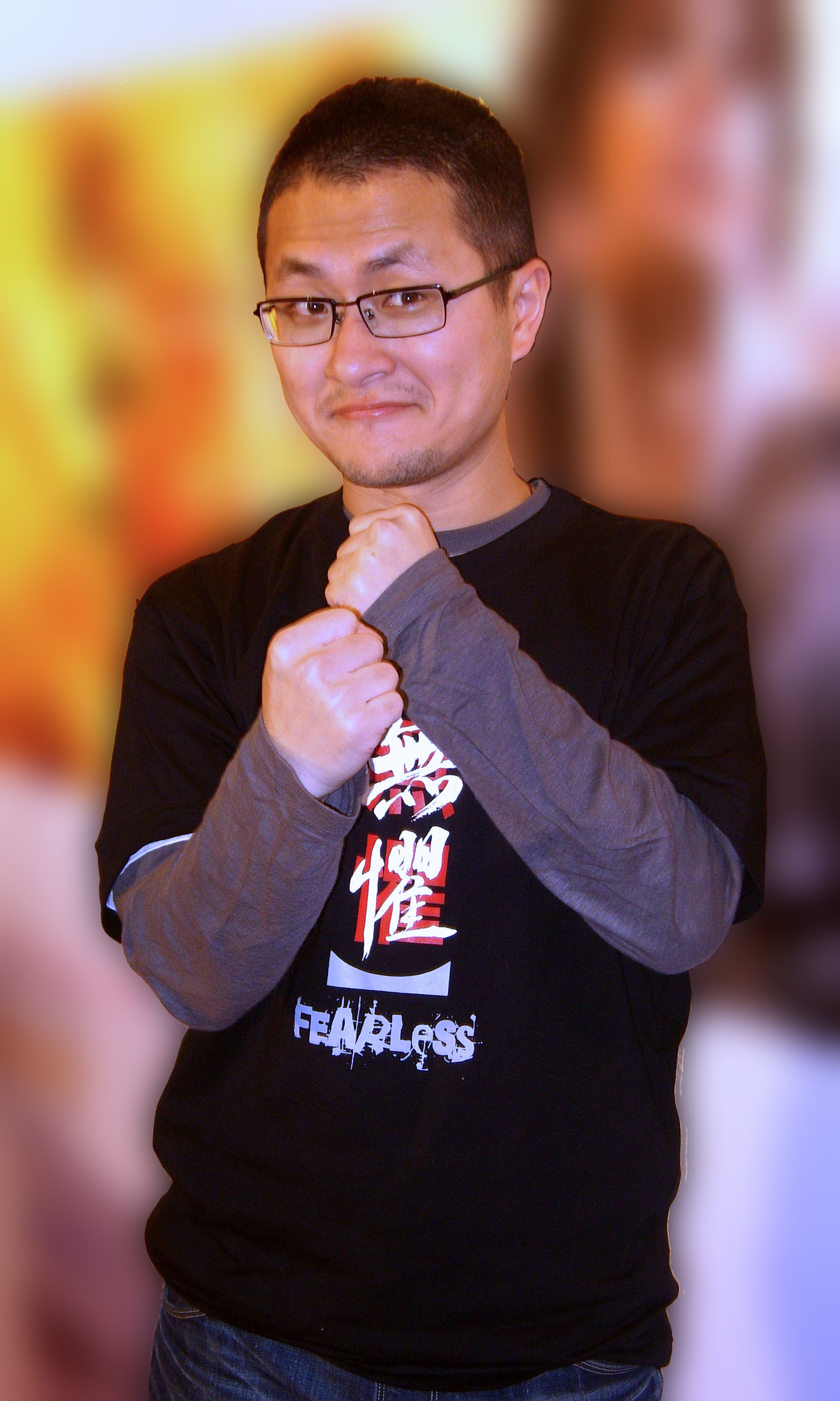 2008 Taipei International Book Exhibition - Signing Stage of Comic Hall (Hall 2): "Giddens", a famous novelist in Taiwan.